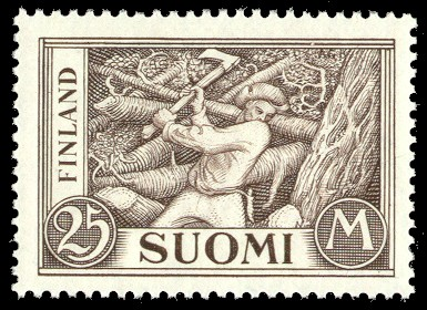 Postage stamp depicting a Finnish log cutter ("Woodchopper" by Akseli Gallen-Kallela)